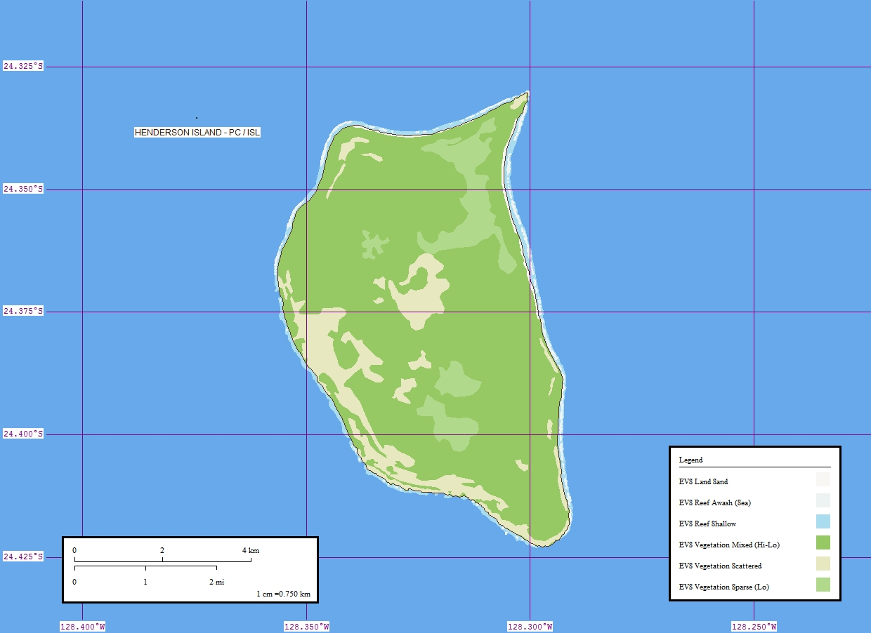 Map of Henderson Island (Pitcairn Islands) in the Pacific Ocean